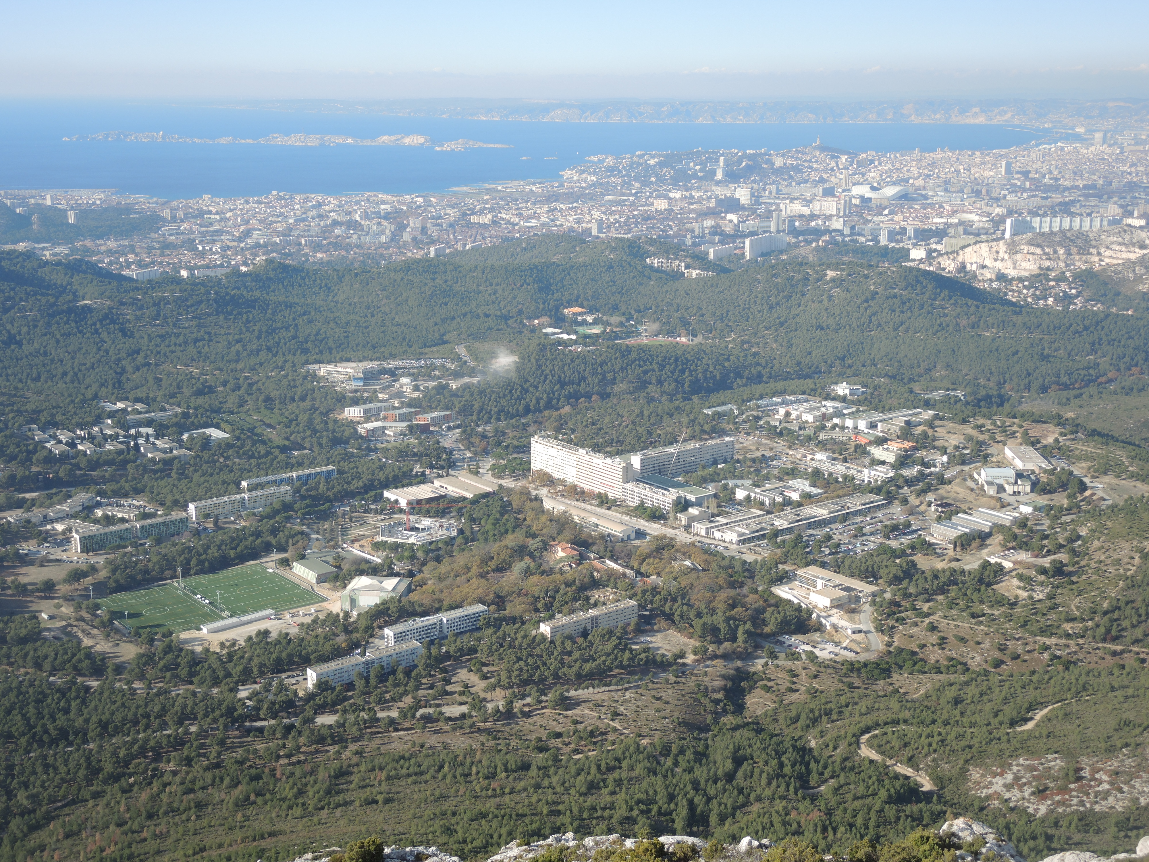 Marseille seen from the Mont Puget, in the foreground the Campus of Luminy